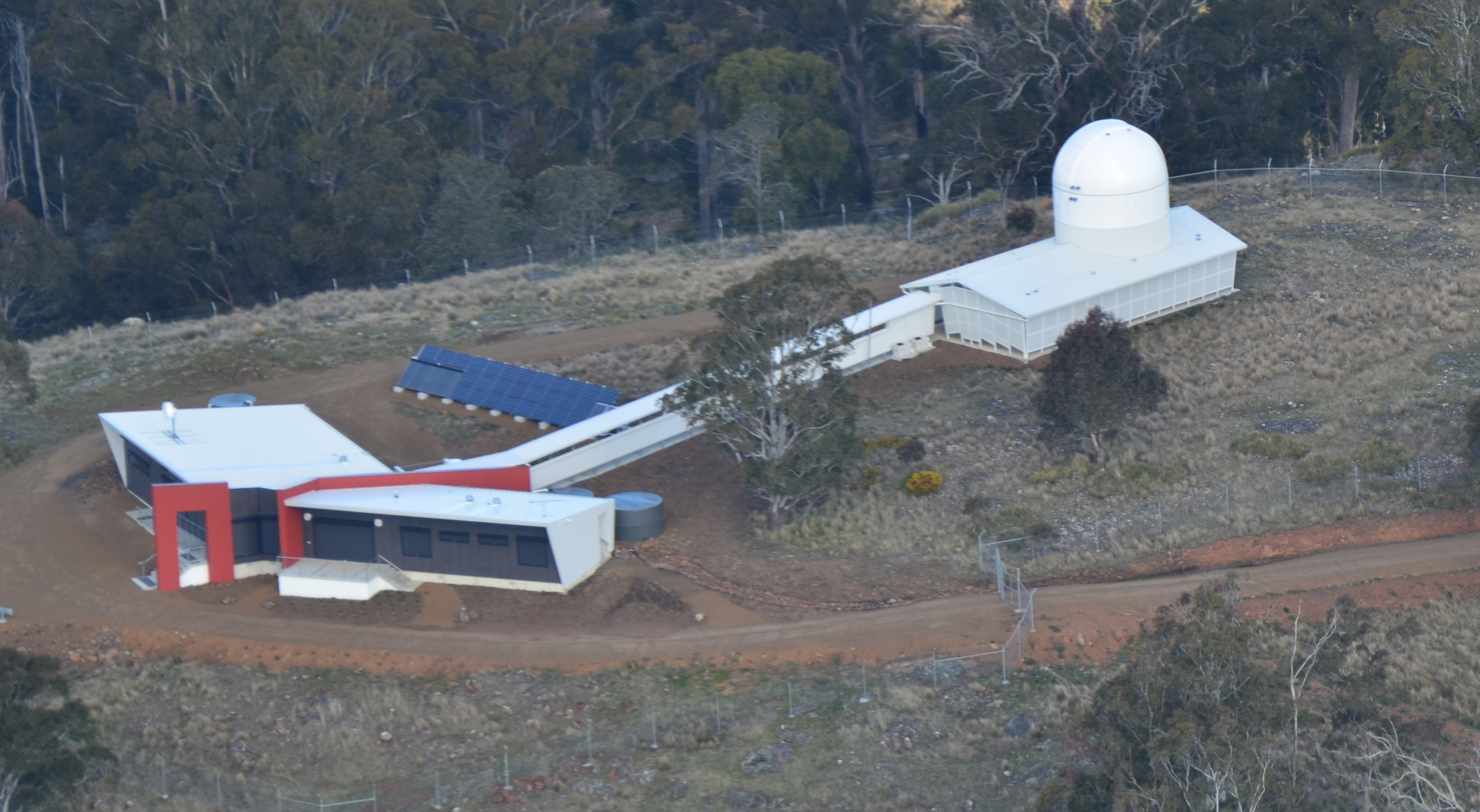 Aerial photo of UTAS Greenhill Observatory at Bisdee Tier including dome of H127 telescope